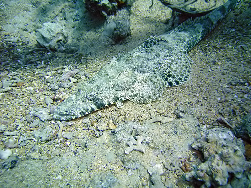 Crocodile fish, Yolanda Reef, Ras Muhammad, Egypt